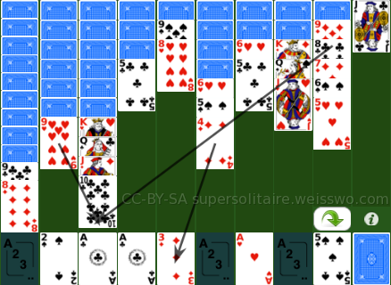 Playing Big Harp Solitaire. The rules play like Klondike. Screenshot from my pet project SuperSolitaire for the iPhone.